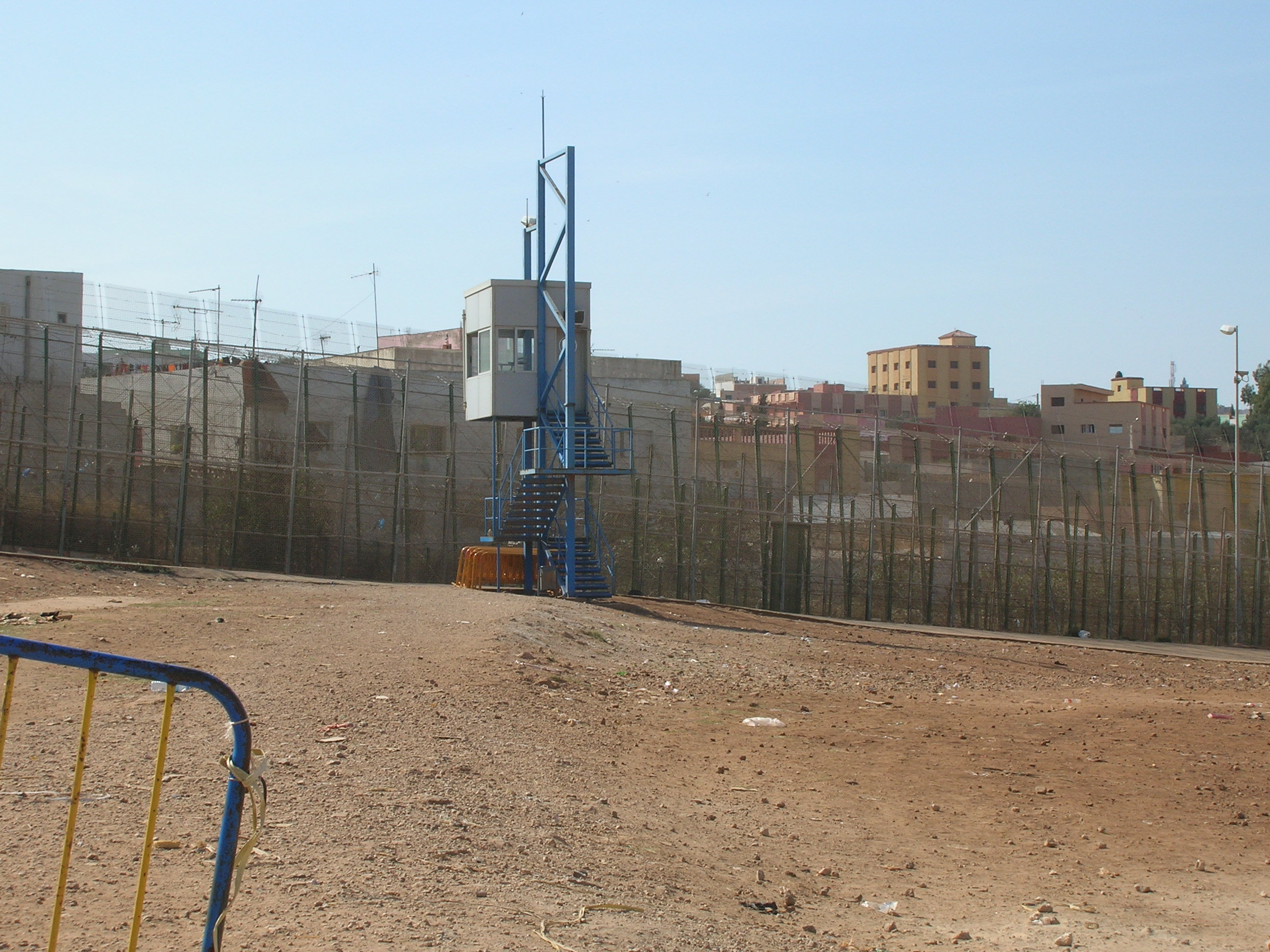 Border fence with guardpost at Spain-Morocco border by Melilla